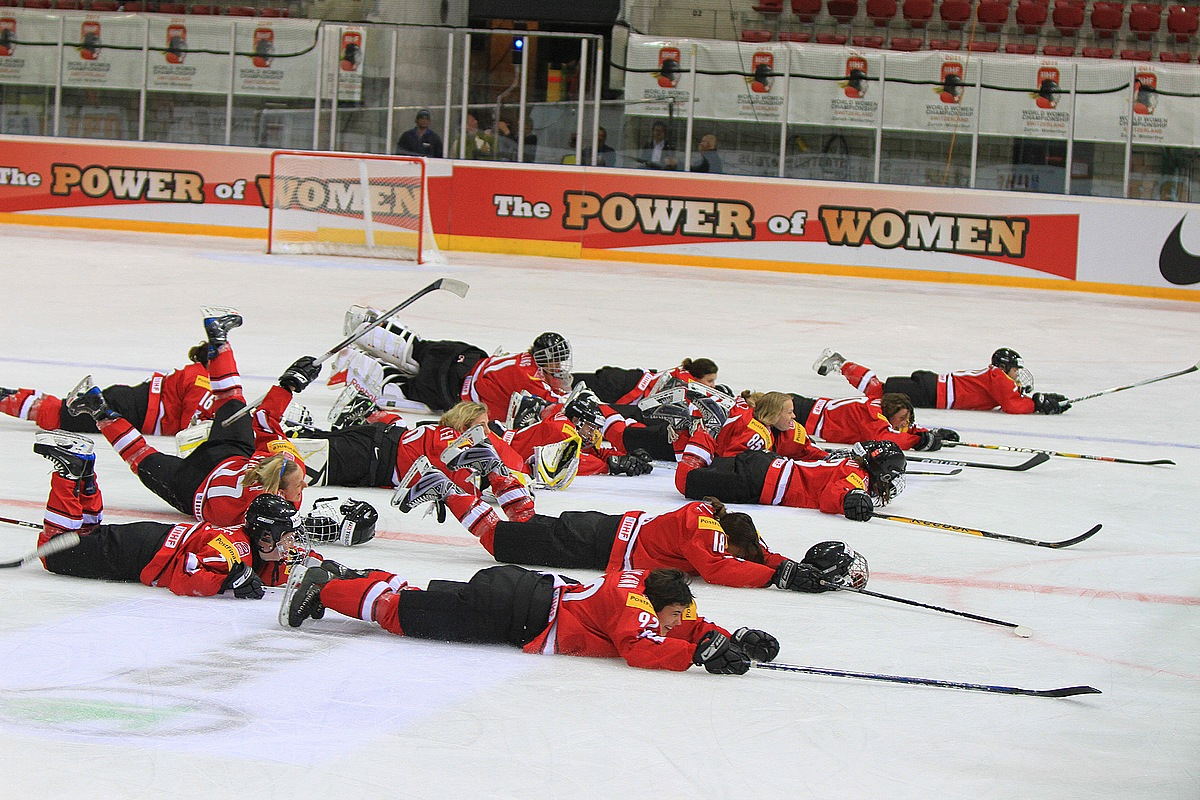 IIHF World Women Championship 2011. Preliminary Round Game Group B. Switzerland - Finland 2-1 OT.